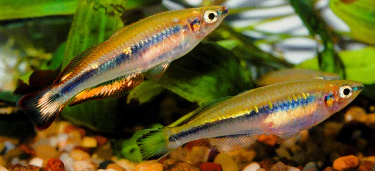 FIGURE 1. Young pair of the aquarium strain of Bedotia madagascariensis, male top right. Not preserved.